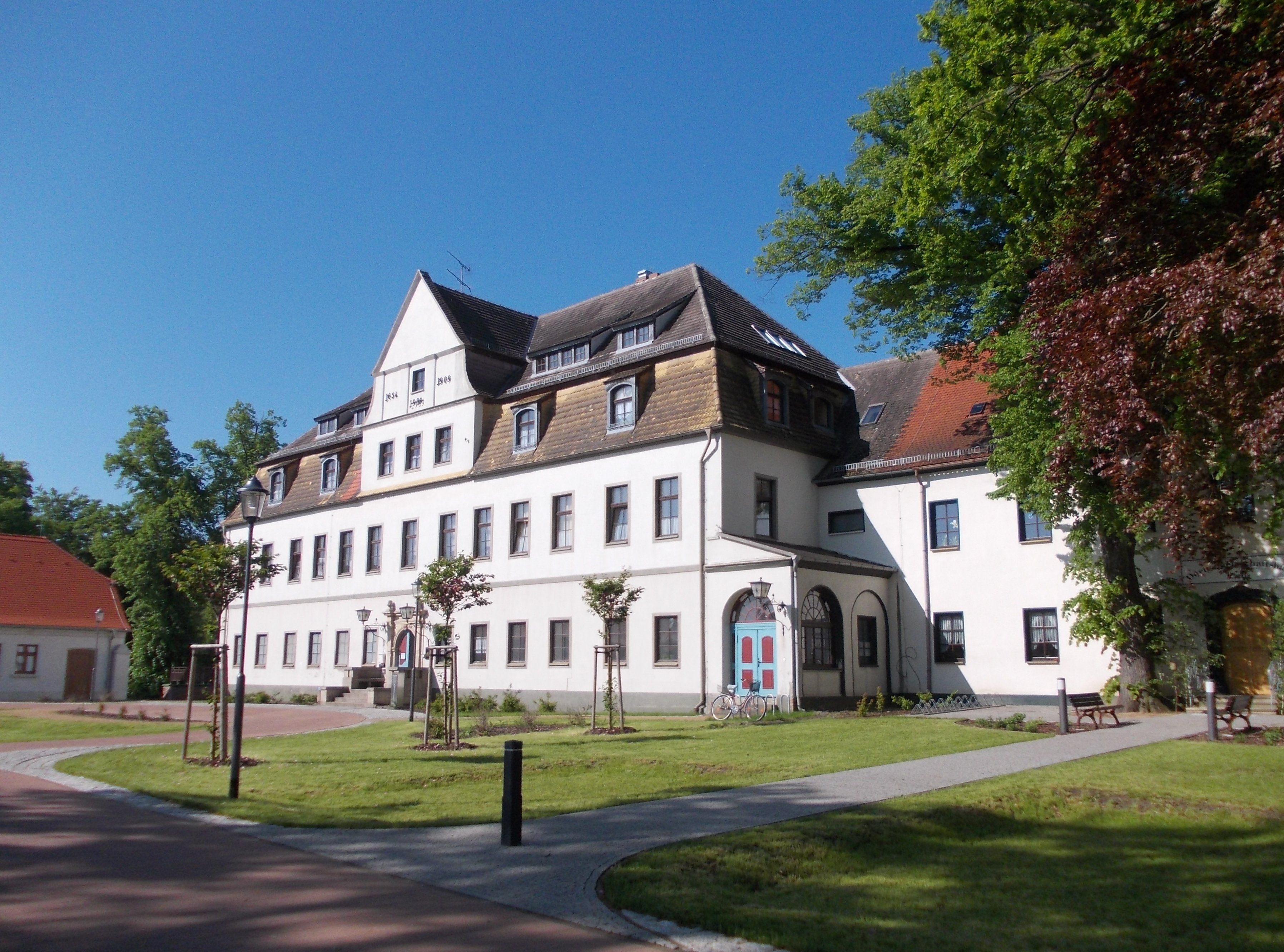 Manor house of Radis estate (Kemberg, Wittenberg district, Saxony-Anhalt), today a youth hostel